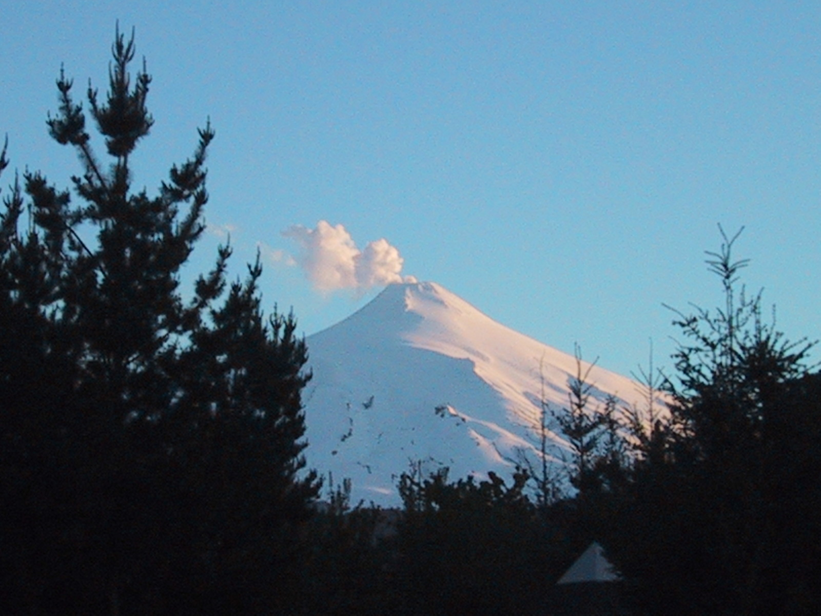 Pucon, Chile